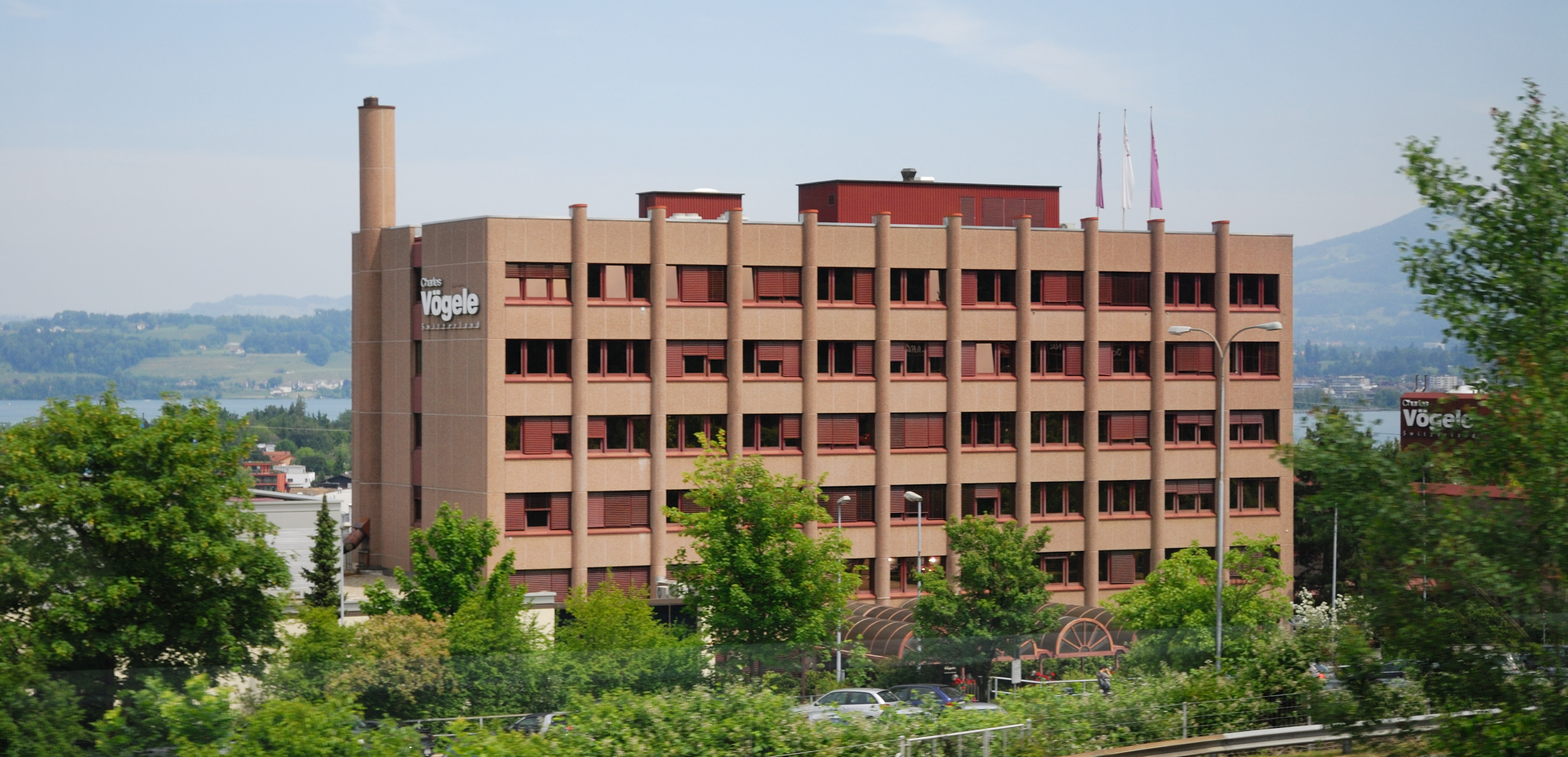 Charles Vögele Group corporate headquarters in Pfäffikon. Road shot from a bus on A3. Charles Vögele is a clothing company with 2006 revenues of CHF 1.3 bn.